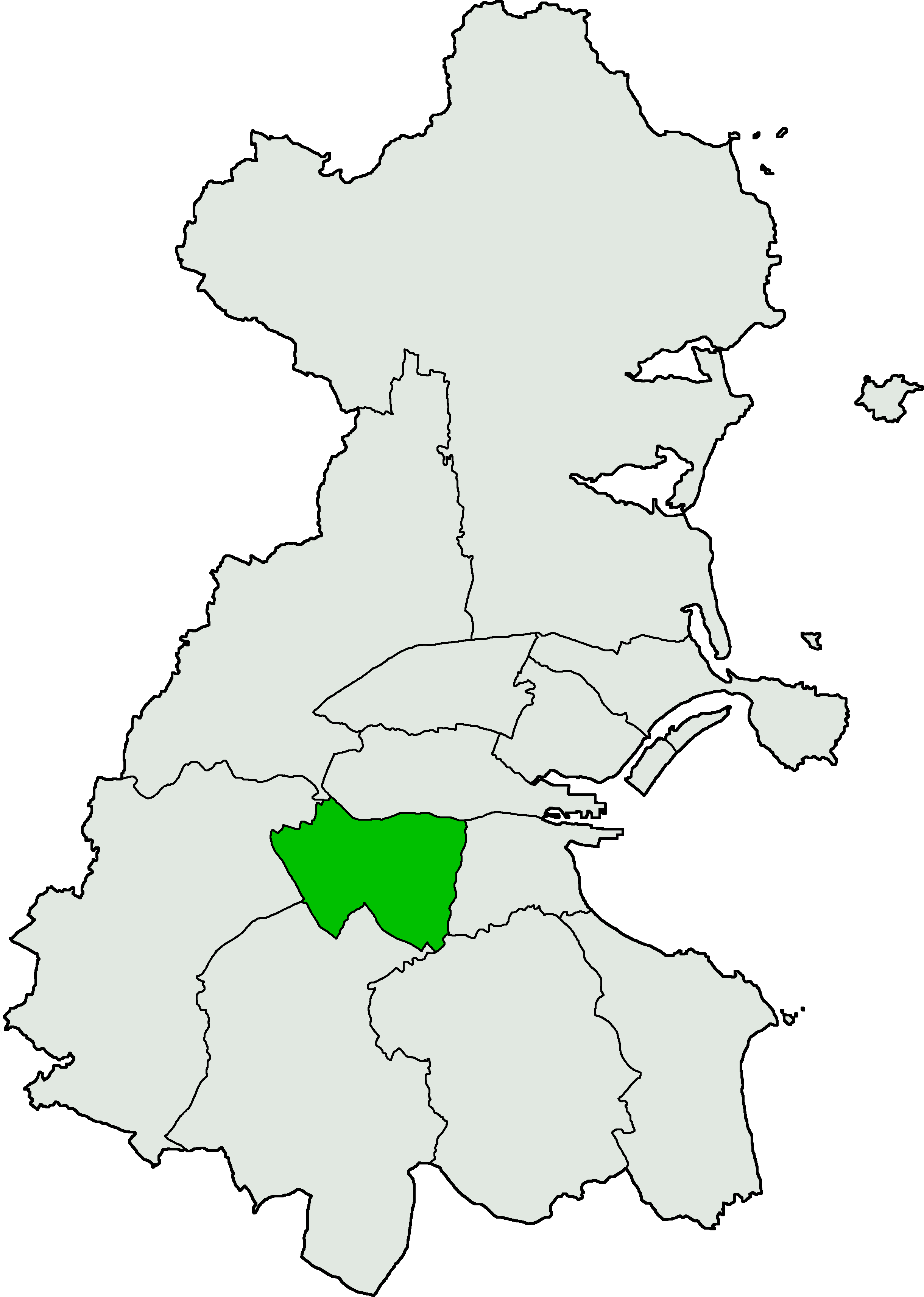 Category:Maps of Dublin